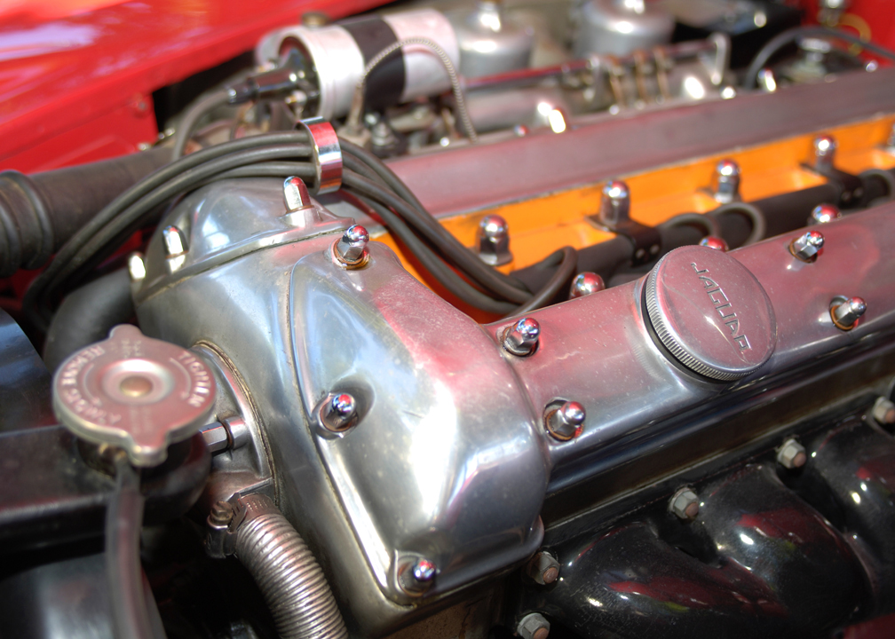 Rocker (valve) Covers of a Jaguar XK150